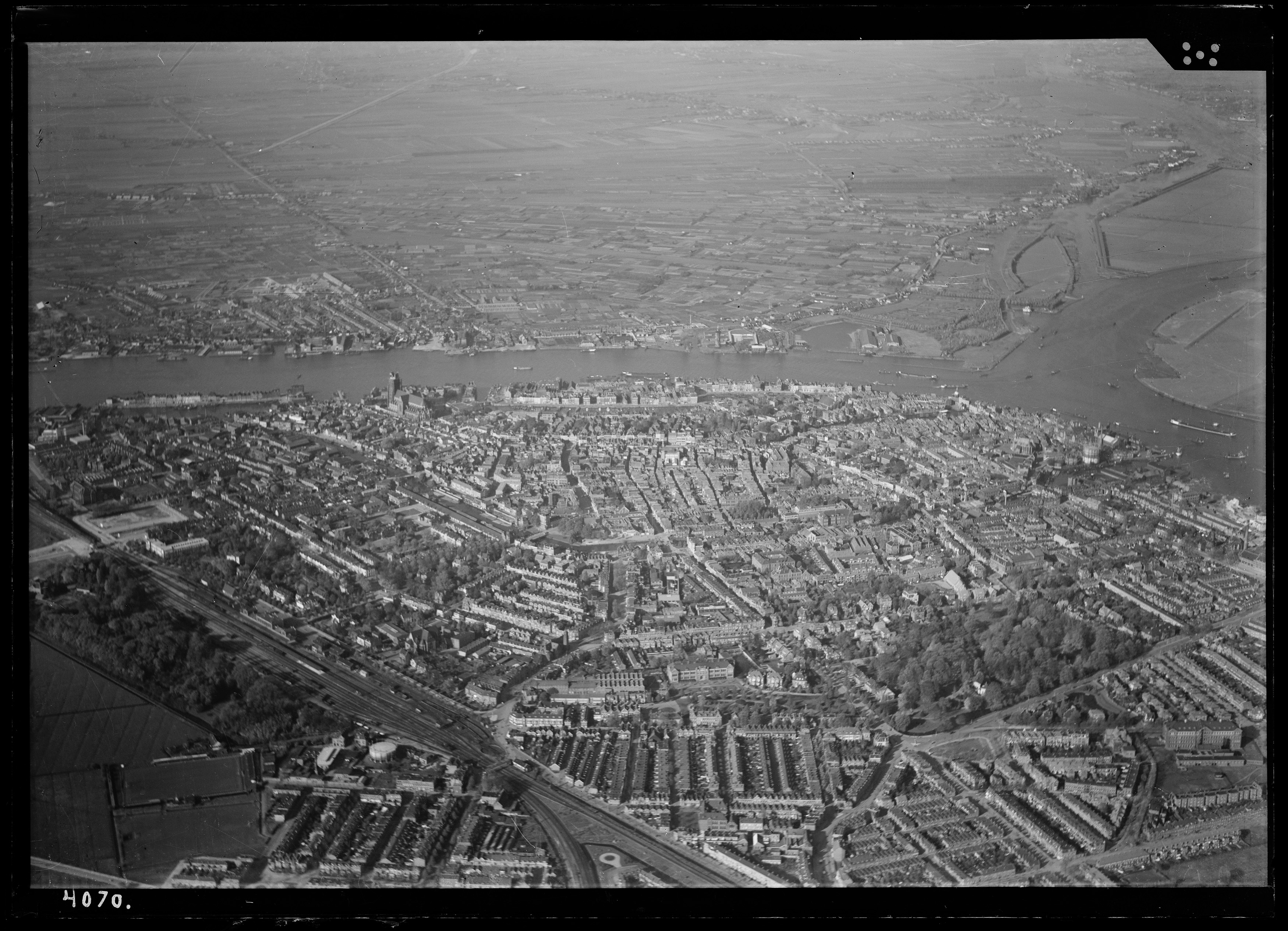 Aerial photograph of Dordrecht, The Netherlands